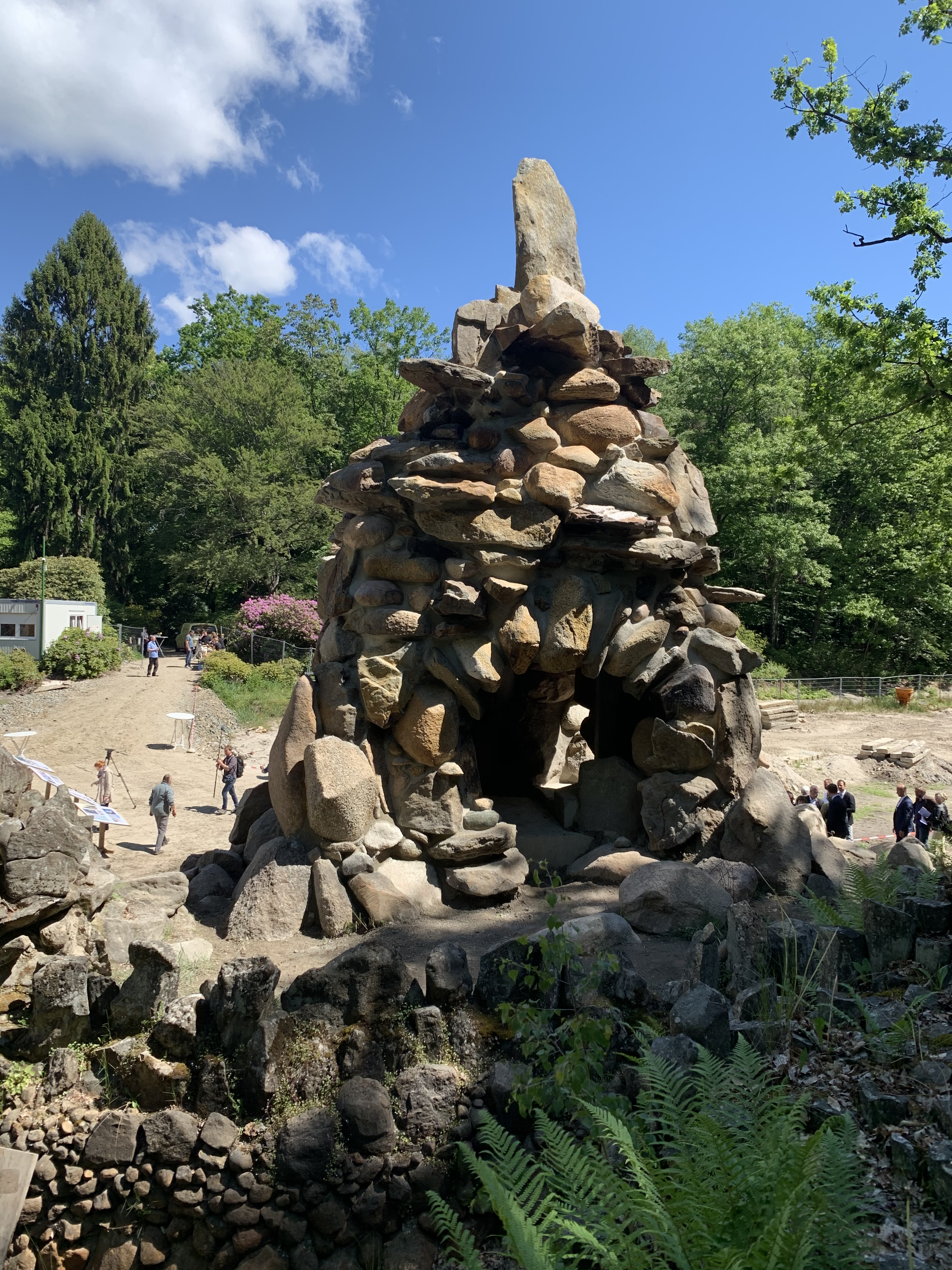 The extensive construction and renovation work in the Rhododendronpark Kromlau have began on 11 August 2017 and are still continuing.